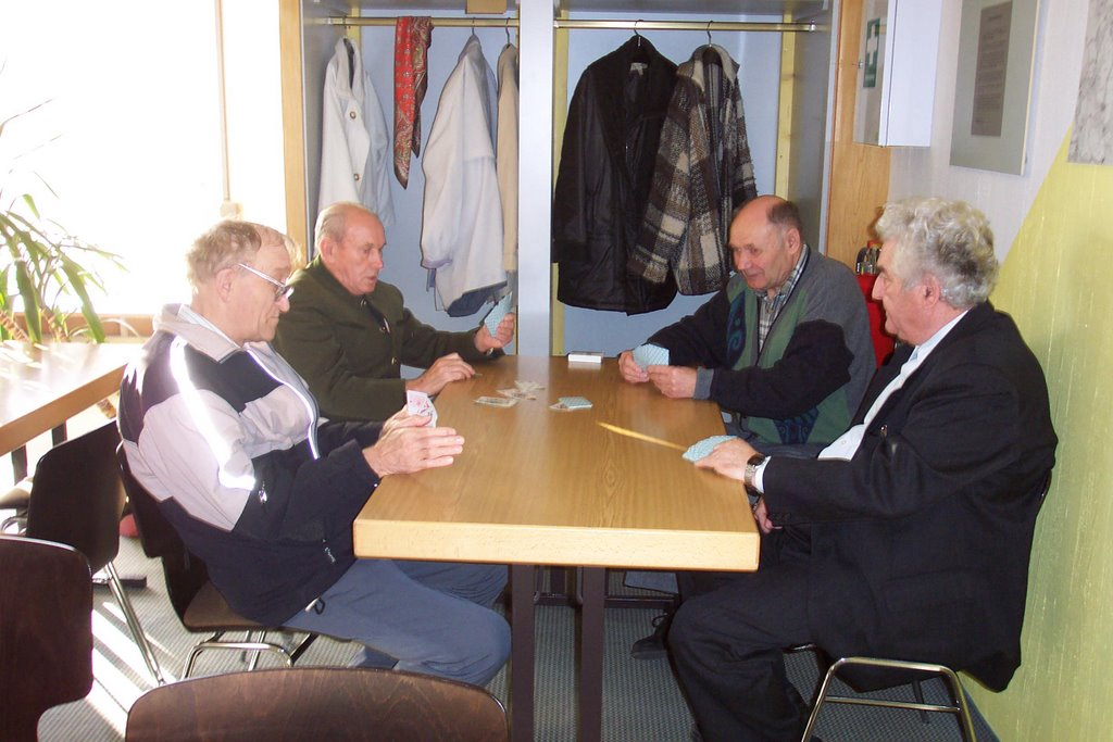 A group of seniors during a game of Durak